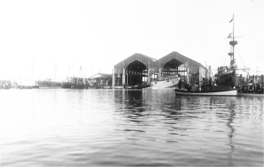 The launching of the light cruiser SMS Szigetvár of the Austro-Hungarian Navy in Pula